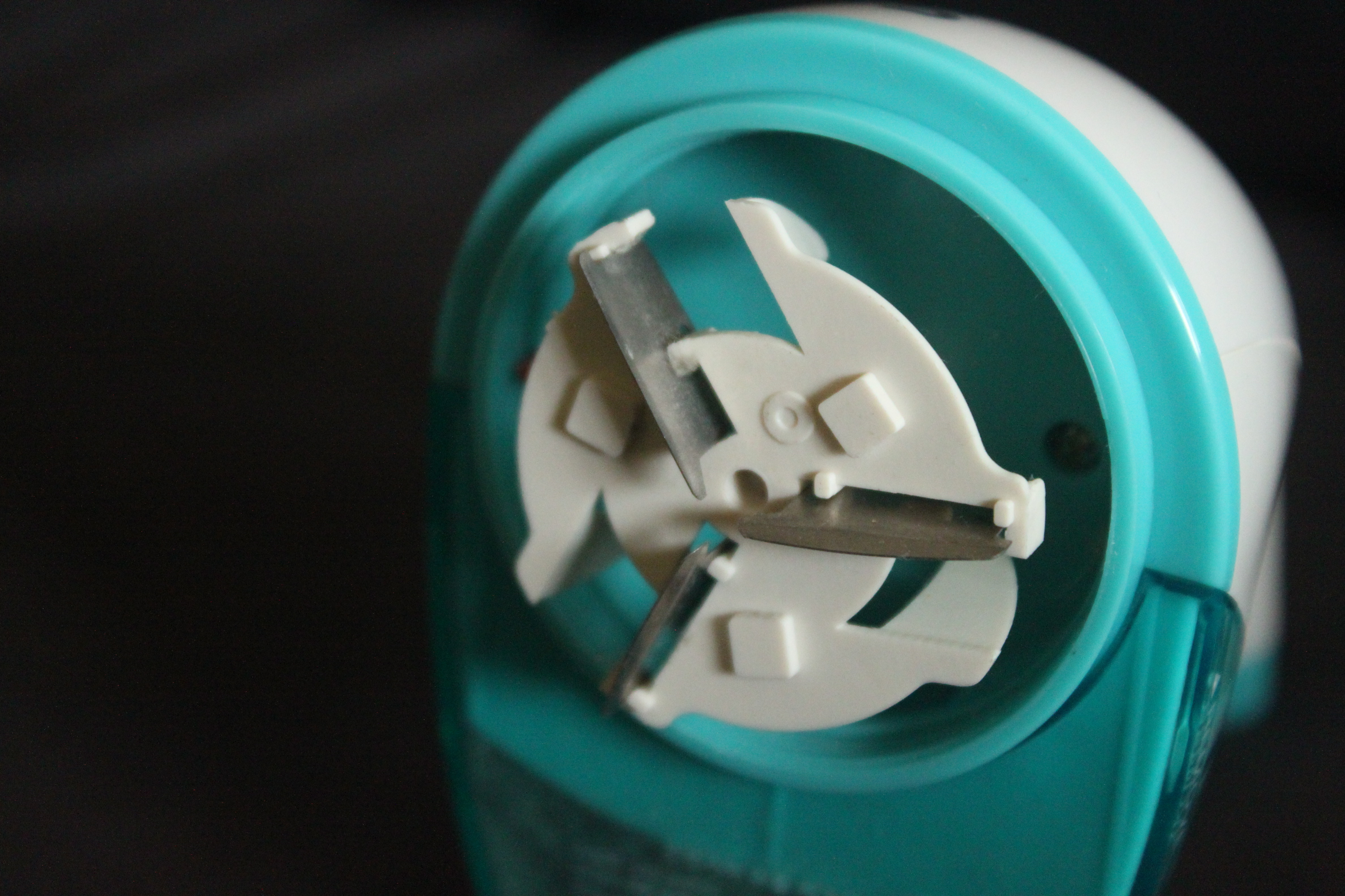 Part of Unix fabric shaver: blades